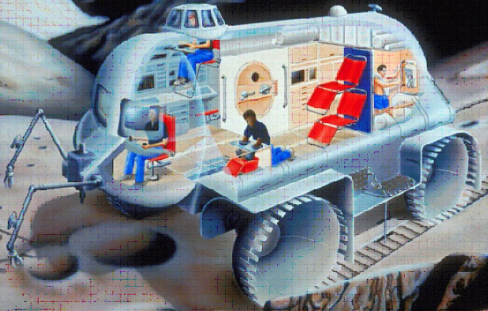 Heavy, pressurized lunar rover intended to enable up to four crew to rove for two weeks on the Moon's surface. A crew airlock permits crew to exit and enter the rover and may double as a docking adapter to the Moon base. A smaller sample lock permits retrieval of lunar samples using remote manipulators mounted on the rover front. A cupola on top, similar to the cupola on the International Space Station, is a secondary driving station and permits views of the lunar terrain 360 degrees around the horizon and to much greater distances than the lower driving station.